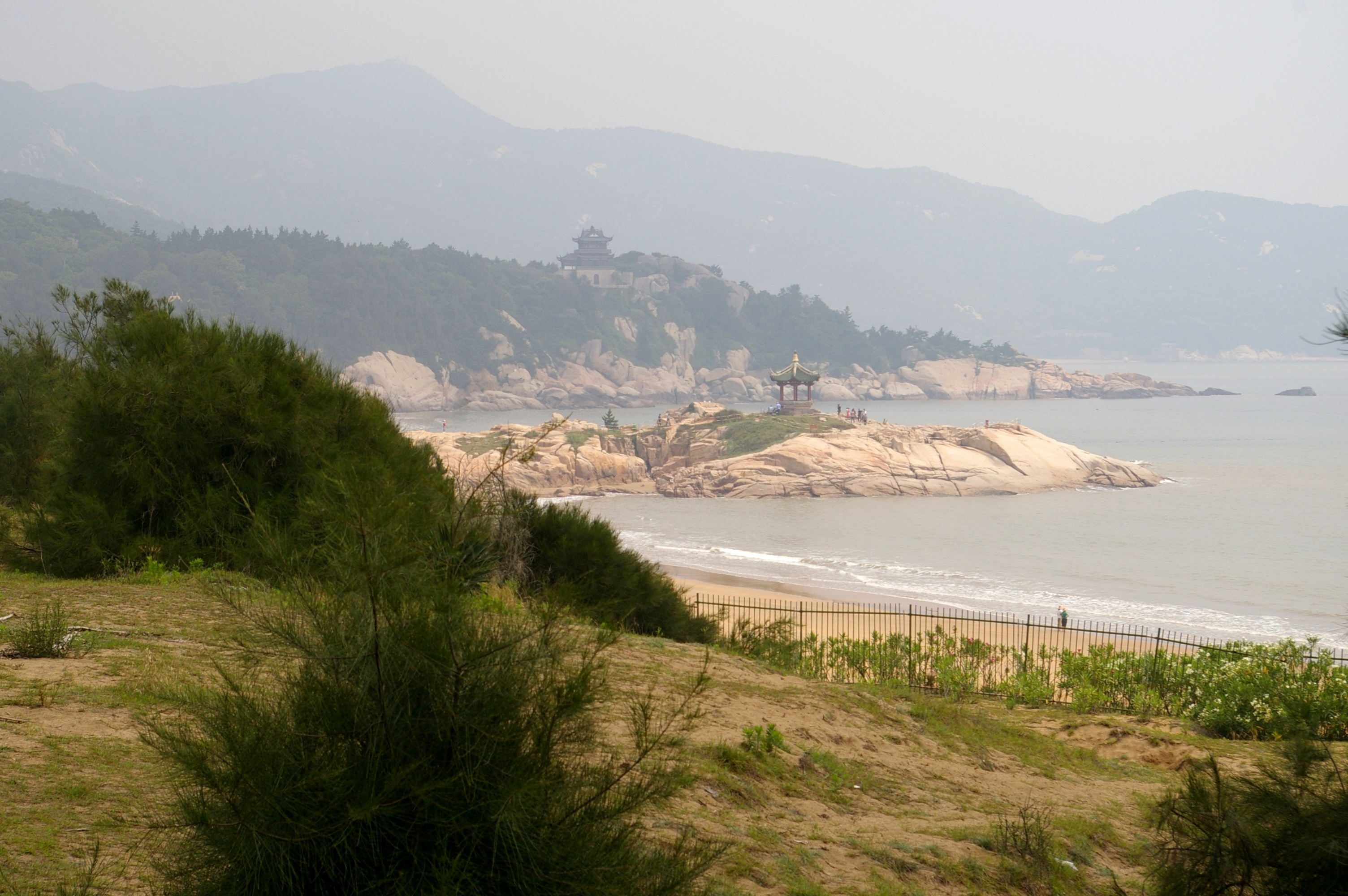 Mount Putuo island